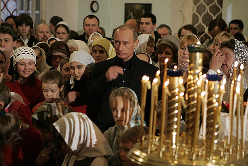 ISTRA, NEWJERUSALEM MONASTERY. Christmas service.